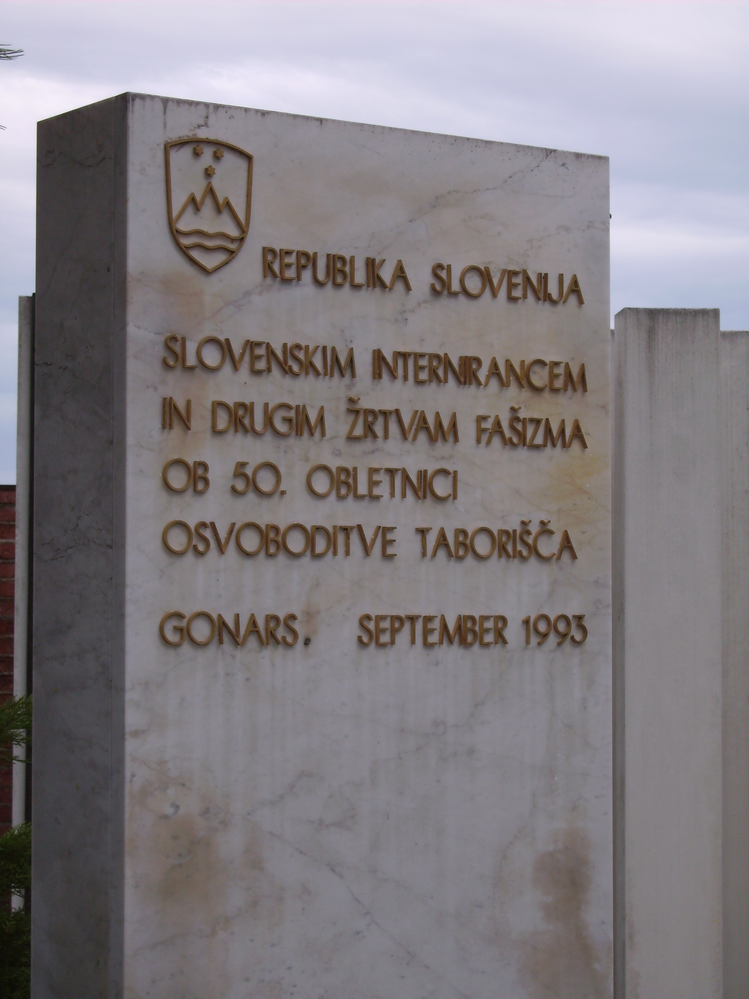 Part of the Slovene monument for the victims of the concentration camps Gonars